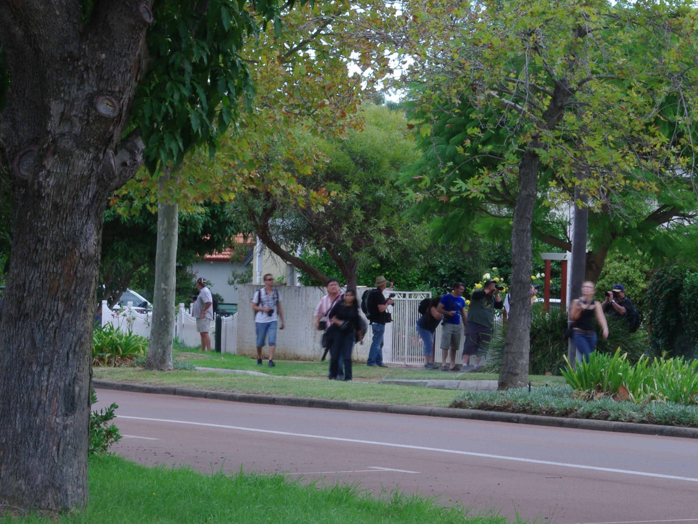 Group of Flickr photographers on a Photowalk in Guildford Western Australia